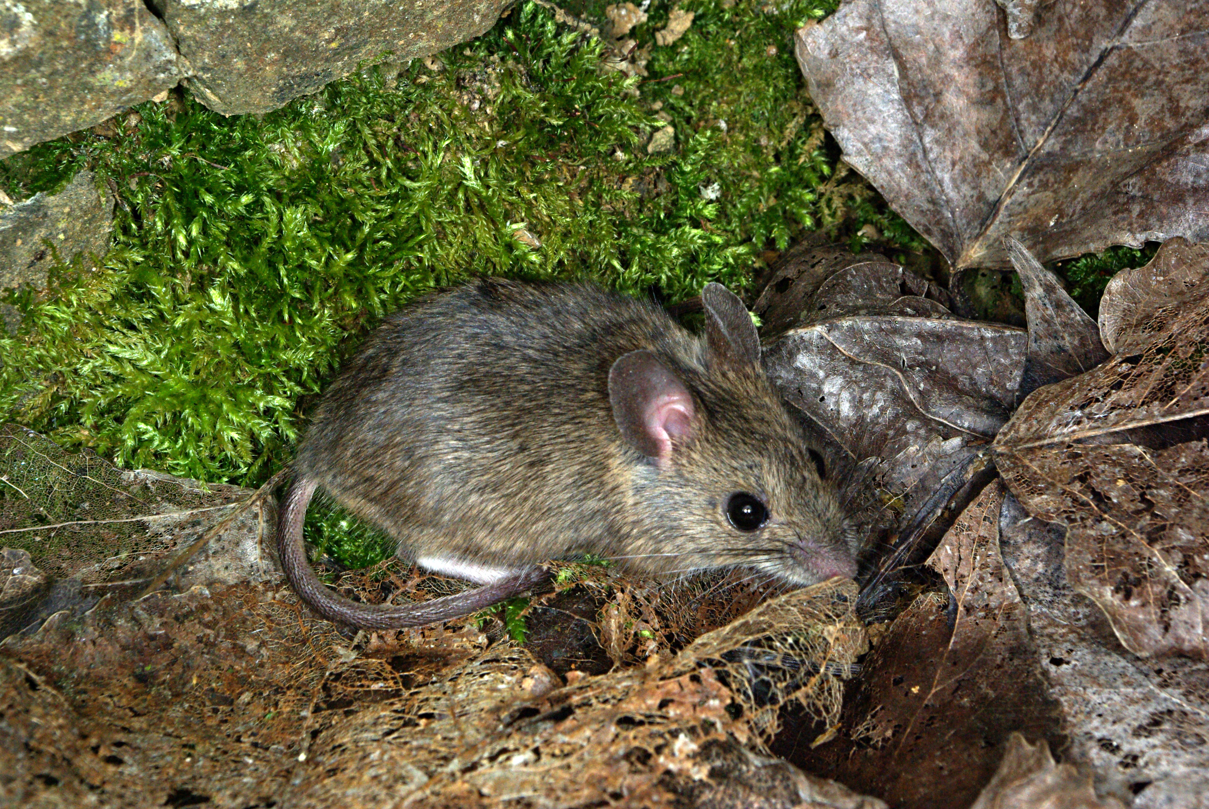 Wood mouse (Apodemus sylvaticus) in Carrocera (León, Spain)